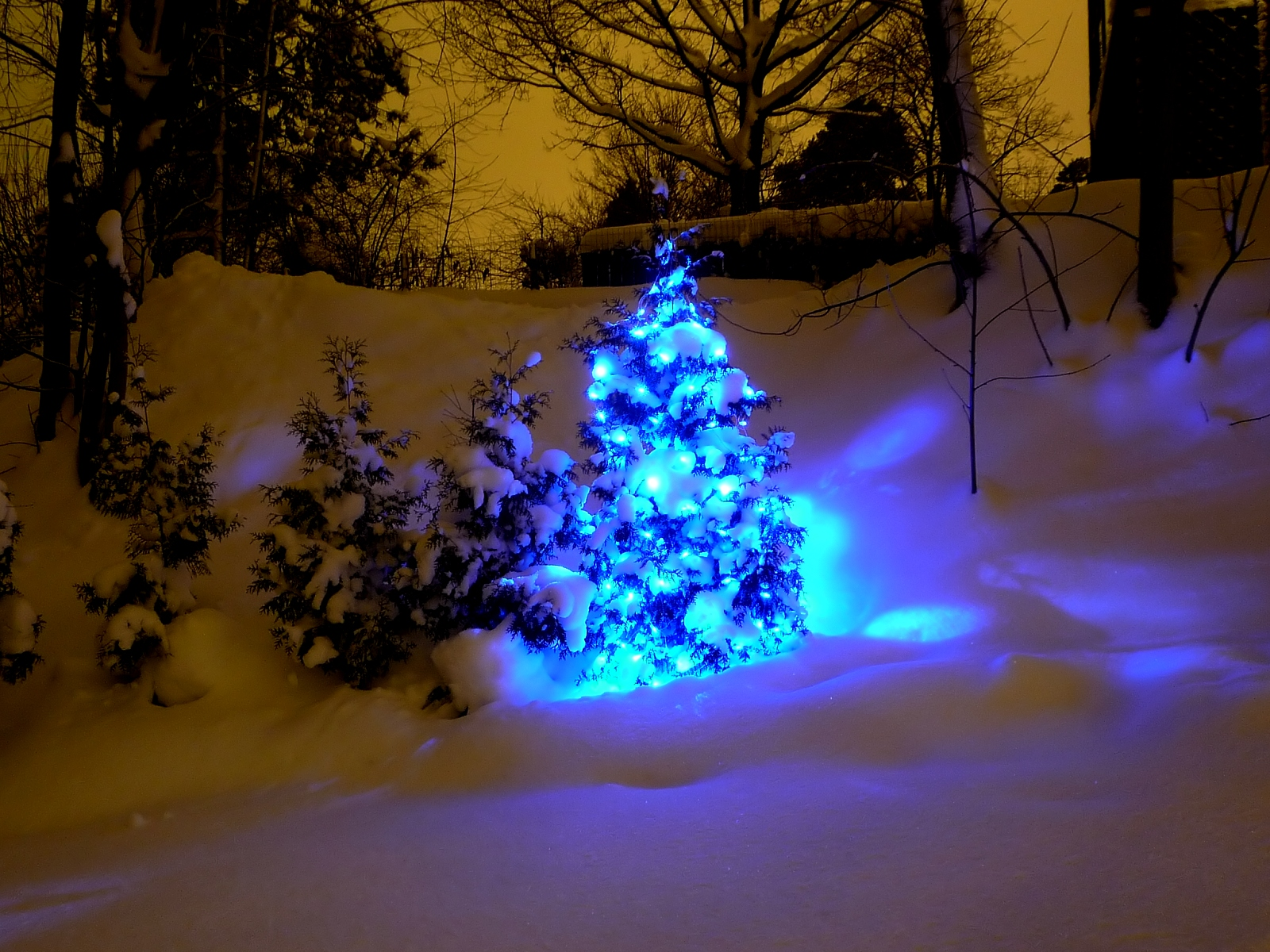 Blue LED Christmas lights in the snow. Helsinki, Finland